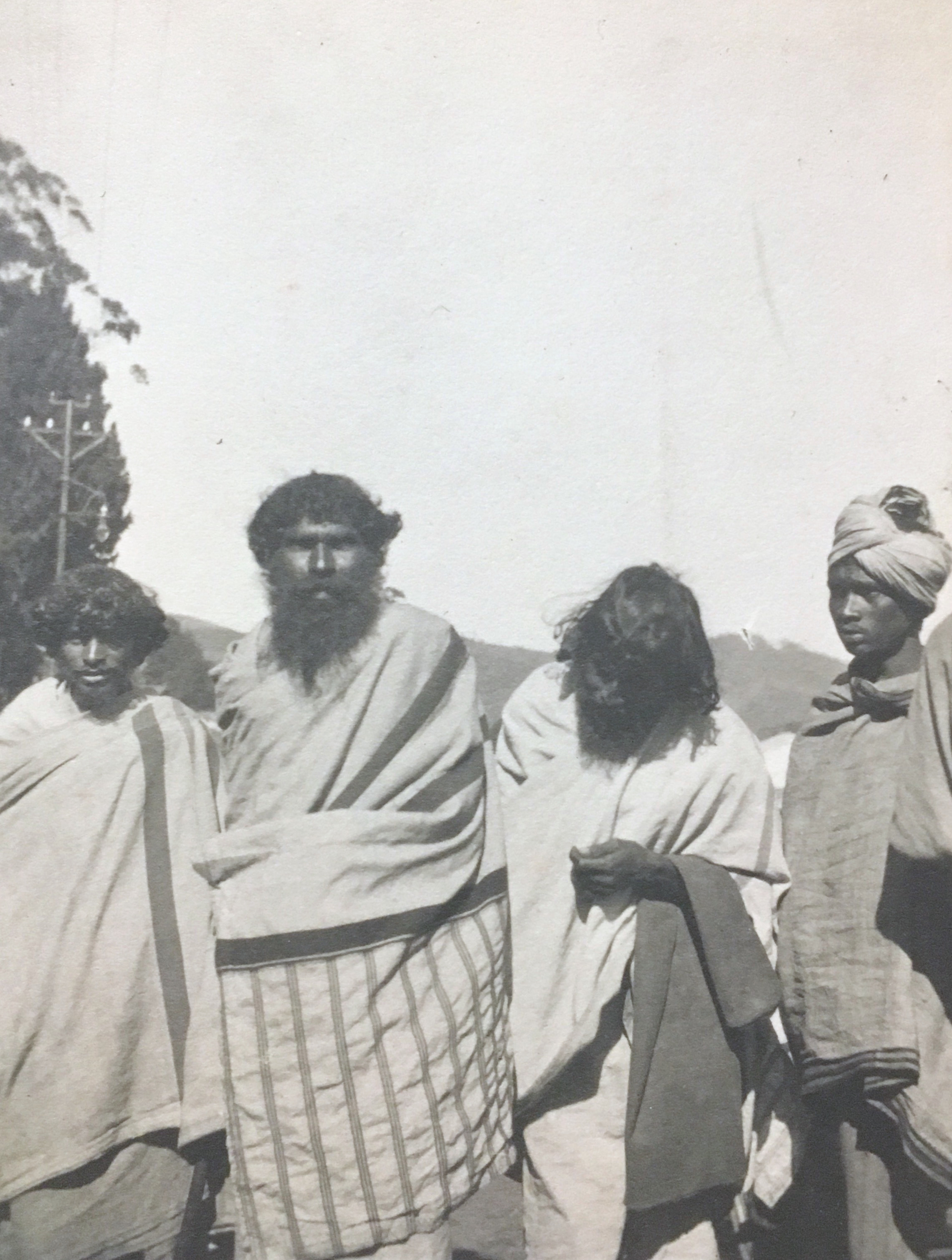 Toda People taken by Capt. Leslie Green (2nd Batt Wiltshire Regiment) when visiting Ooty sometime in 1924